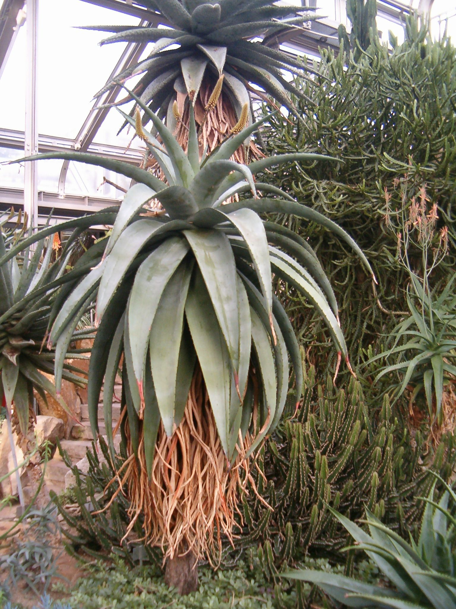 Location: Botanical Gardens Berlin Dahlem Xerophyt